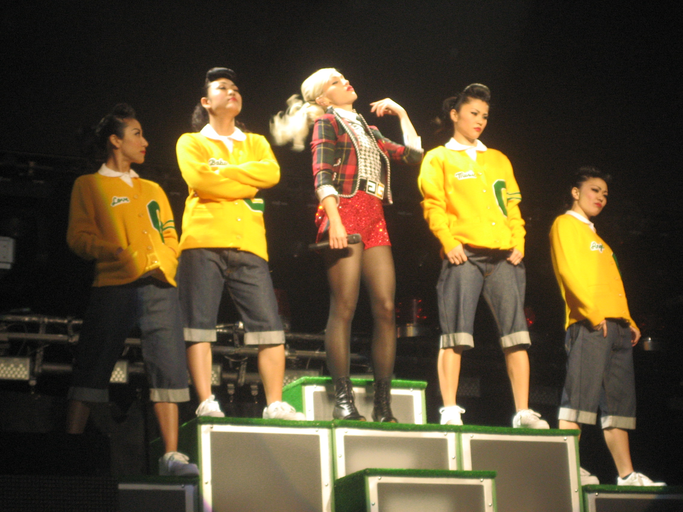 Gwen Stefani performing "Hollaback Girl" at the Tweeter Center for the Performing Arts in Mansfield, Massachusetts, United Statesgwen & harajukus